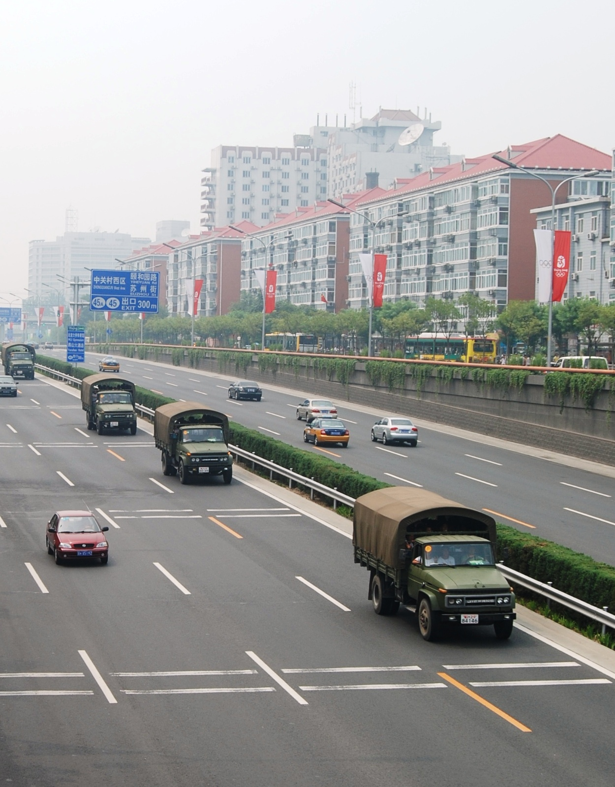 Chinese military trucks in Bejing in 2008.